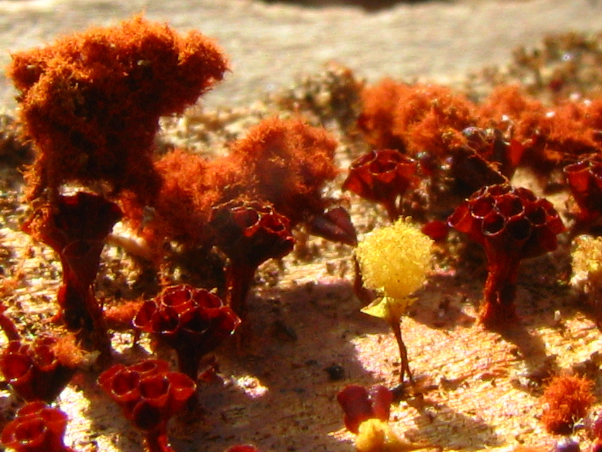 Metatrichia vesparium (Batsch) Nann.-Bremek. Location: Kinderhook Trail, Wayne National Forest, Ohio, USA For more information about this, see the observation page at Mushroom Observer.